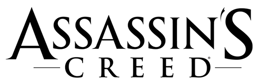 The logo text for Assassin's Creed. This is the new, fixed version.